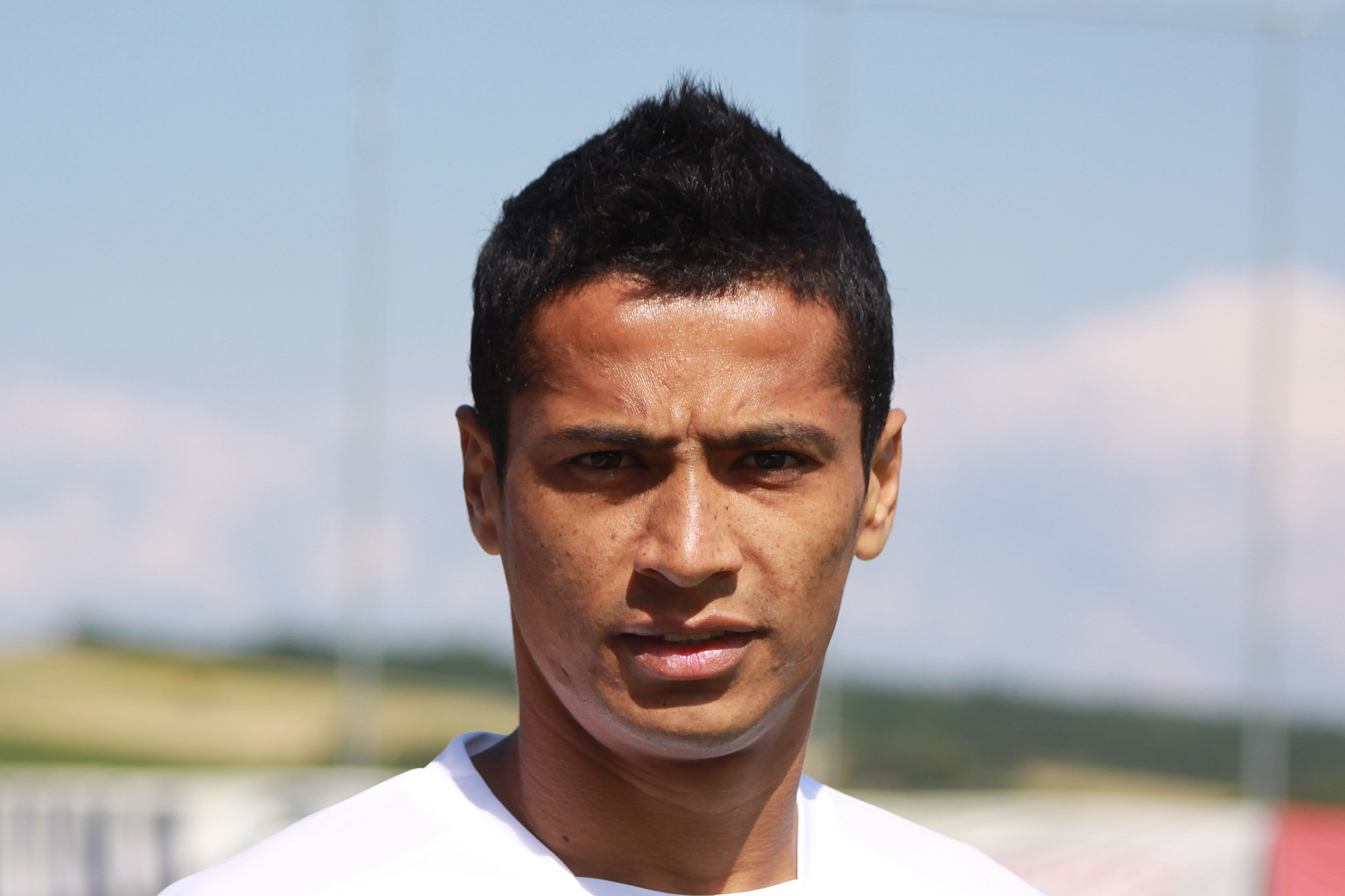 Cícero Santos – Hertha BSC Berlin (2)